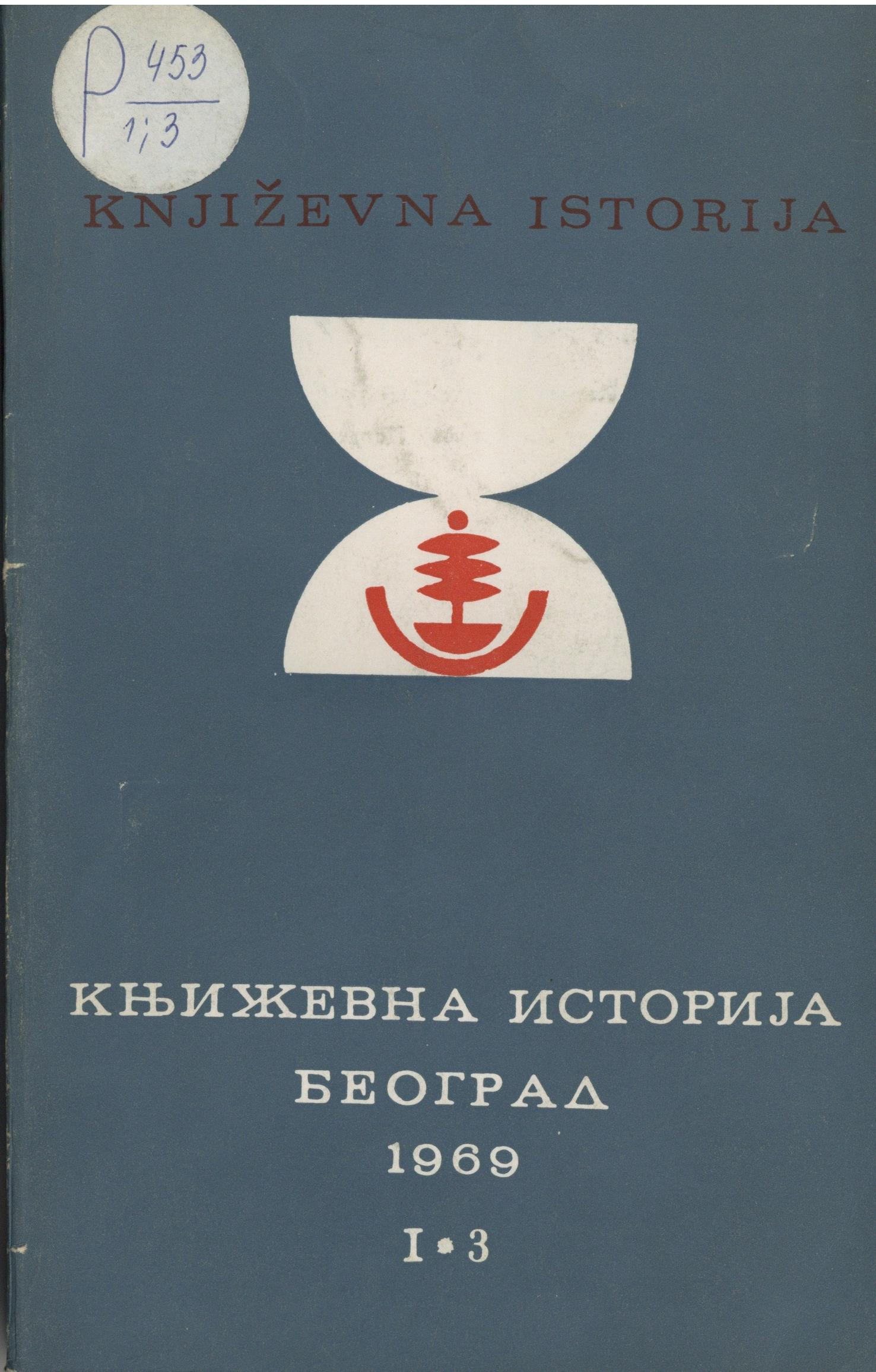 Front page of journal, year 1969